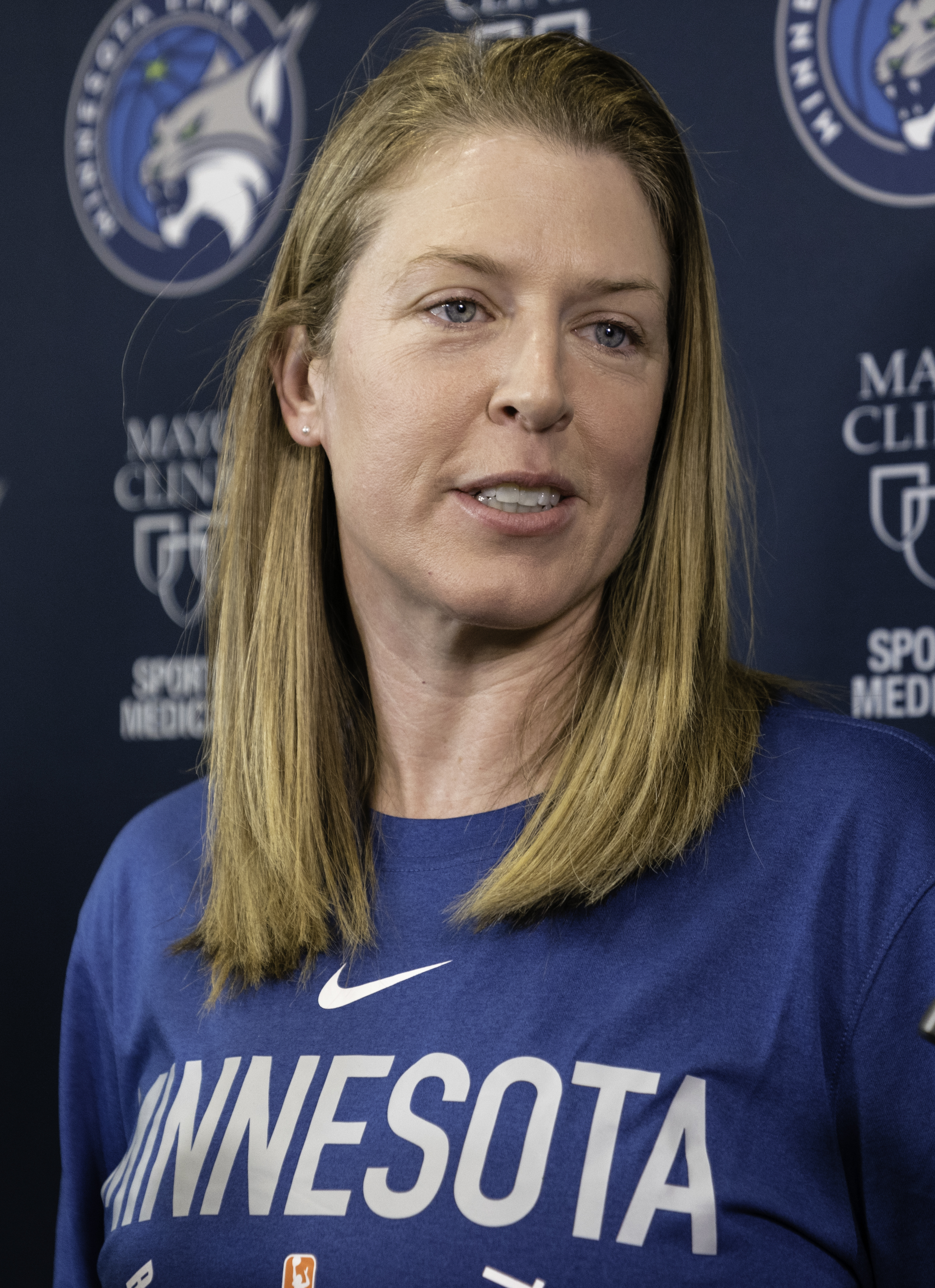 Assistant coach Katie Smith talks to media about her new position with the Minnesota Lynx. Smith joins the Lynx staff after serving as the head coach of the New York Liberty for the 2018 and 2019 seasons. Before taking over head coaching duties, she spent three years as a member of Bill Laimbeer’s staff with the Liberty, being elevated to Associate Head Coach prior to the 2016 season.